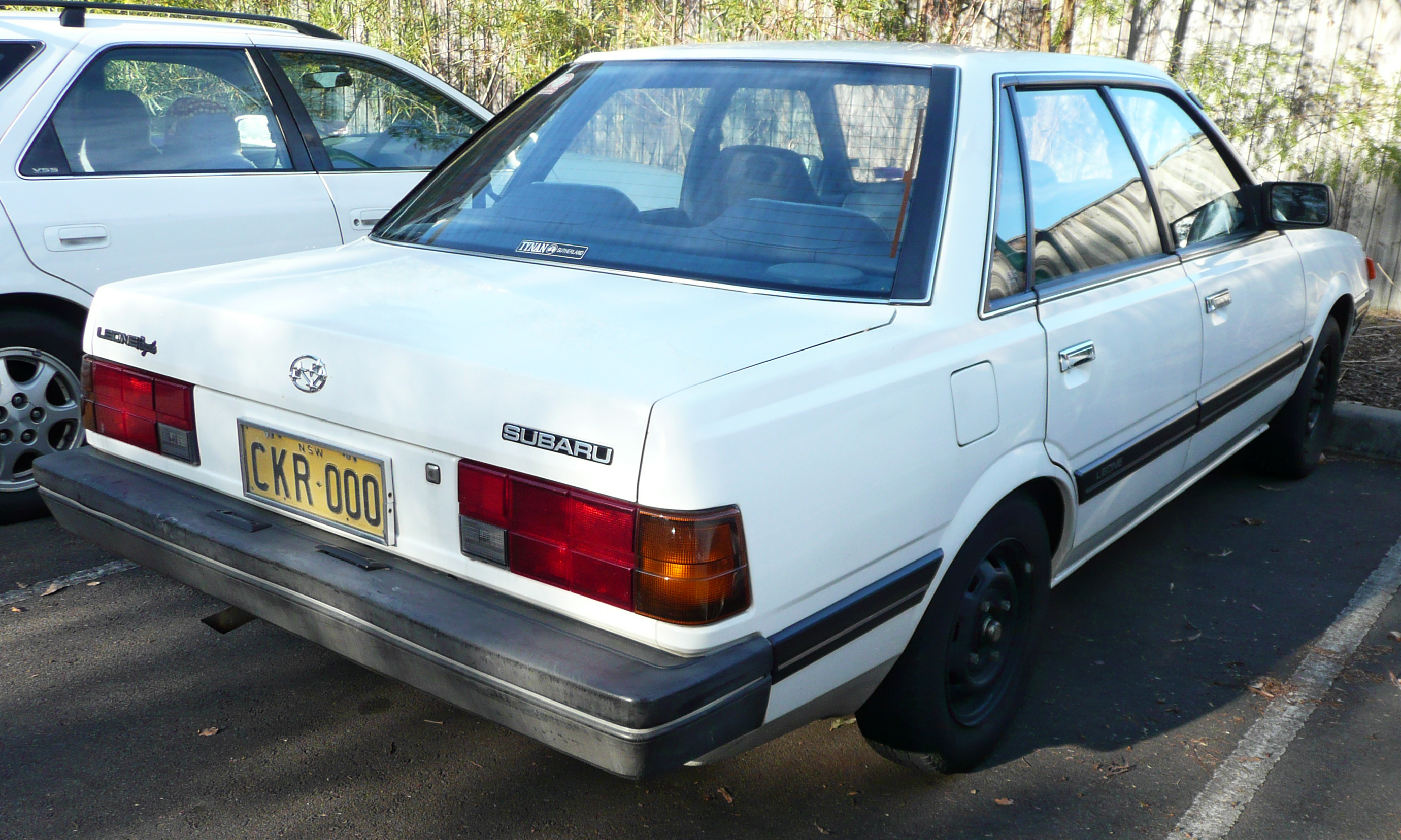 1988 Subaru Leone Royale GL sedan. Photographed in Sutherland, New South Wales, Australia.